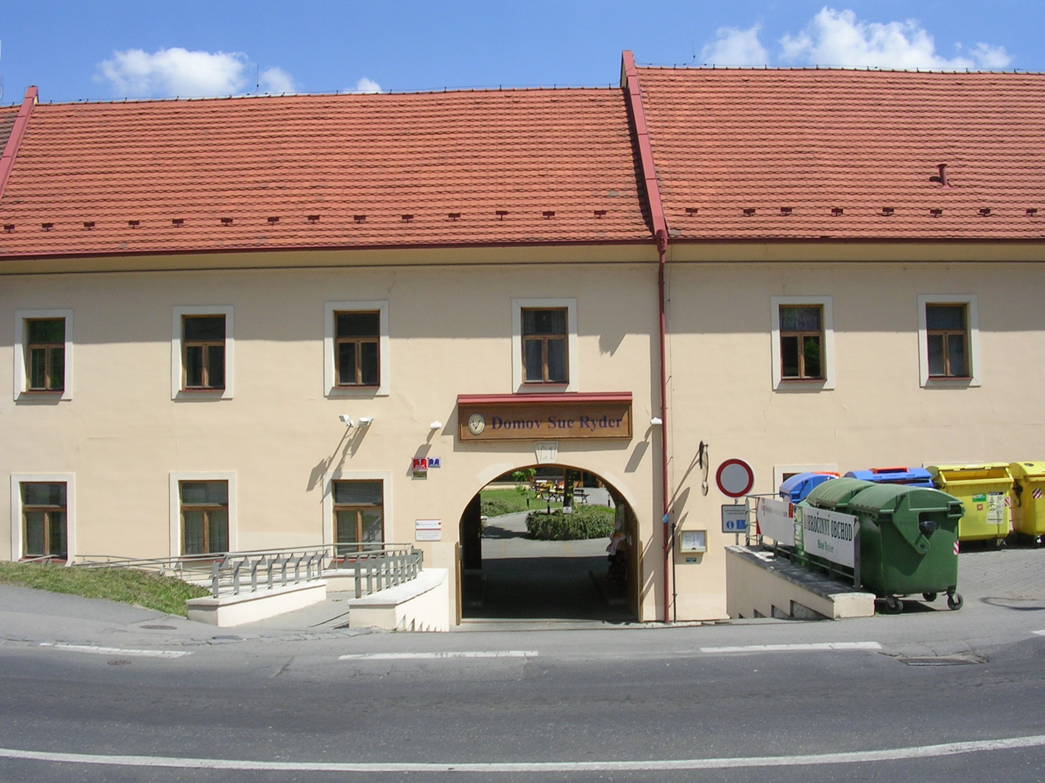 Michle, Prague, the Czech Republic. Michelská Street.